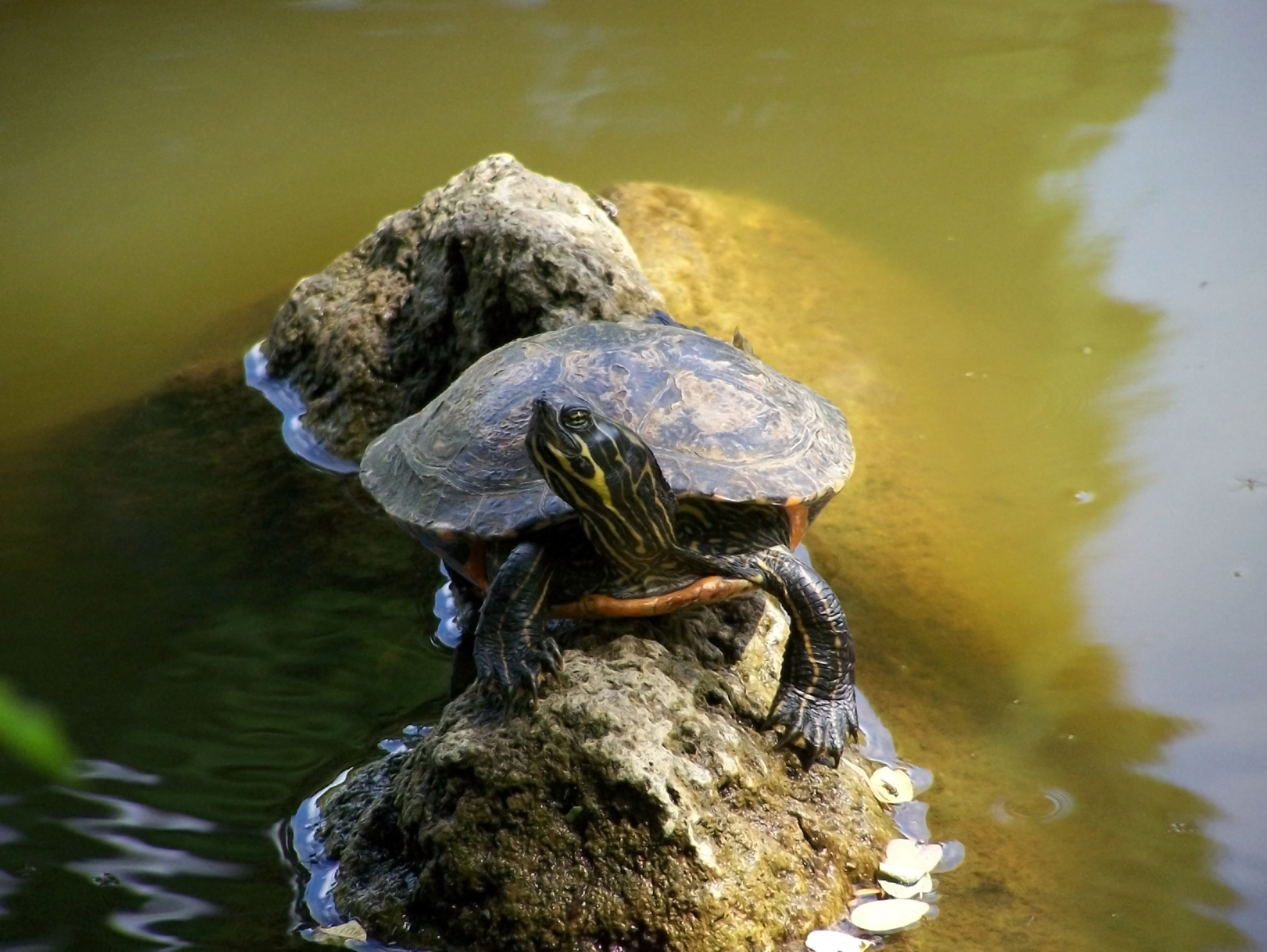 Species: Pseudemys concinna concinna (formerly known as P. c. hieroglyphica) Common name: Hieroglyphic River Cooter